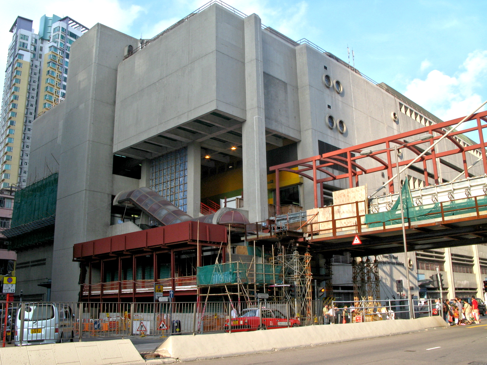 Yeung Uk Road Municipal Services Building